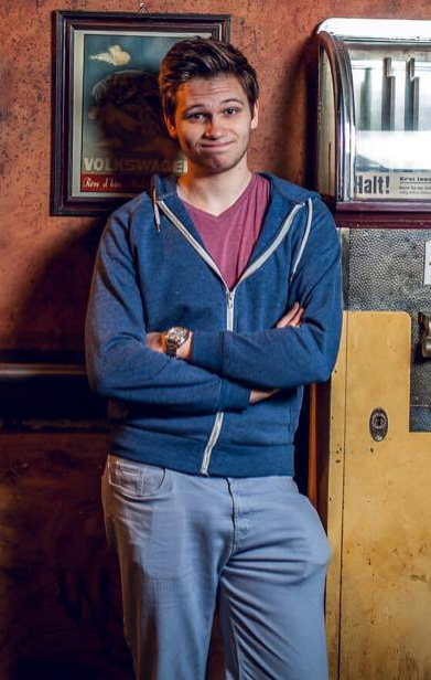 The comedian Fabian Köster